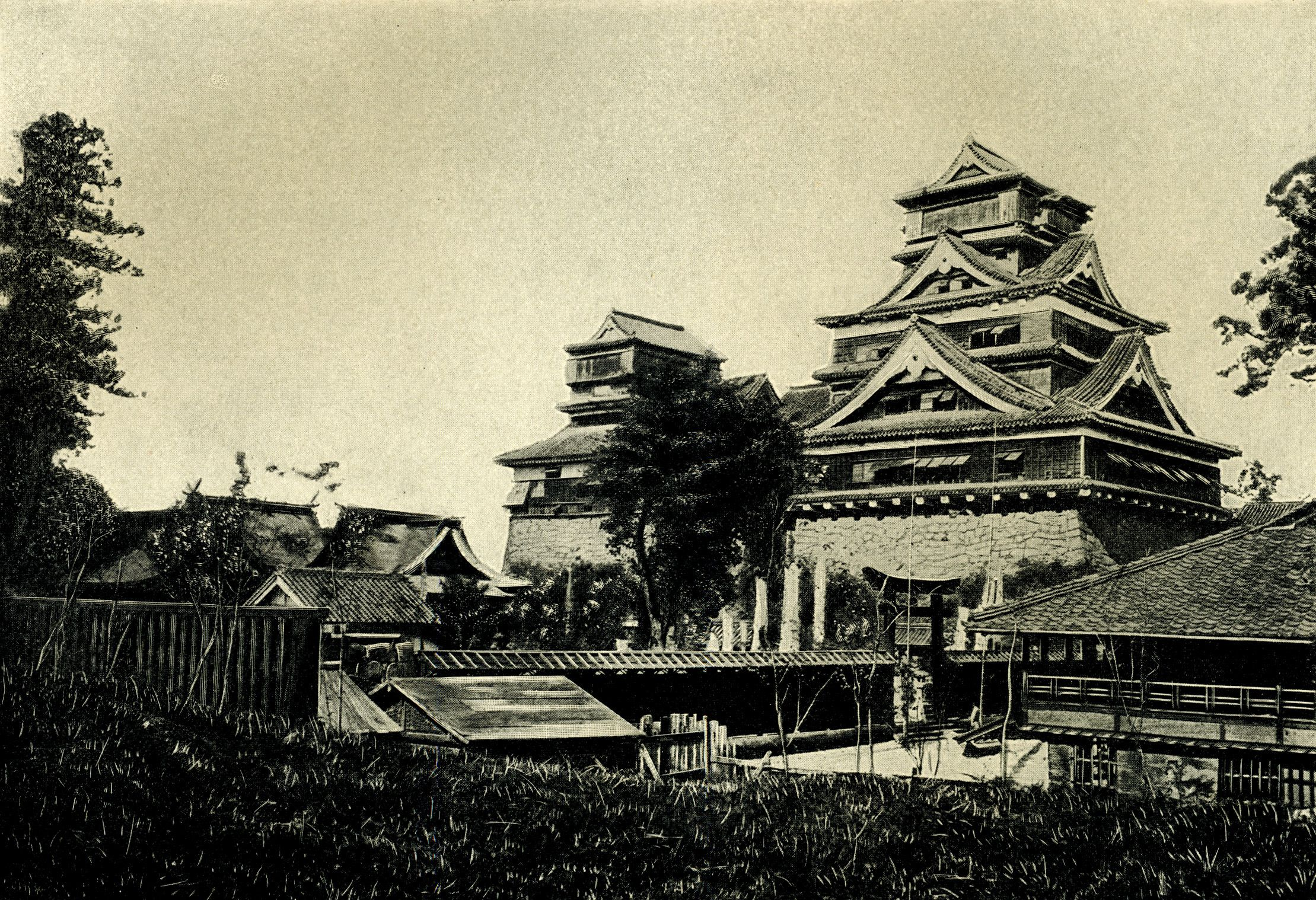 Castle of daimyo in Kumamoto. Photo from the book "Japan And Japanese" (1902)